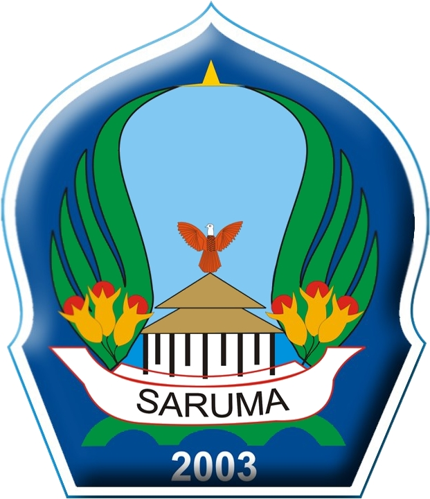 Coat of Arms (Lambang) of Regency (Kabupaten) Halmahera Selatan (South Halmahera), Provinsi Maluku Utara (North Maluku; the Molucca islands, aka The Spice Islands), Indonesia